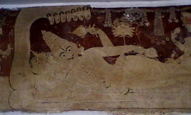 Wall painting of Lord Vishnu on Srikurmam Temple walls (Possible 17th century paintings)